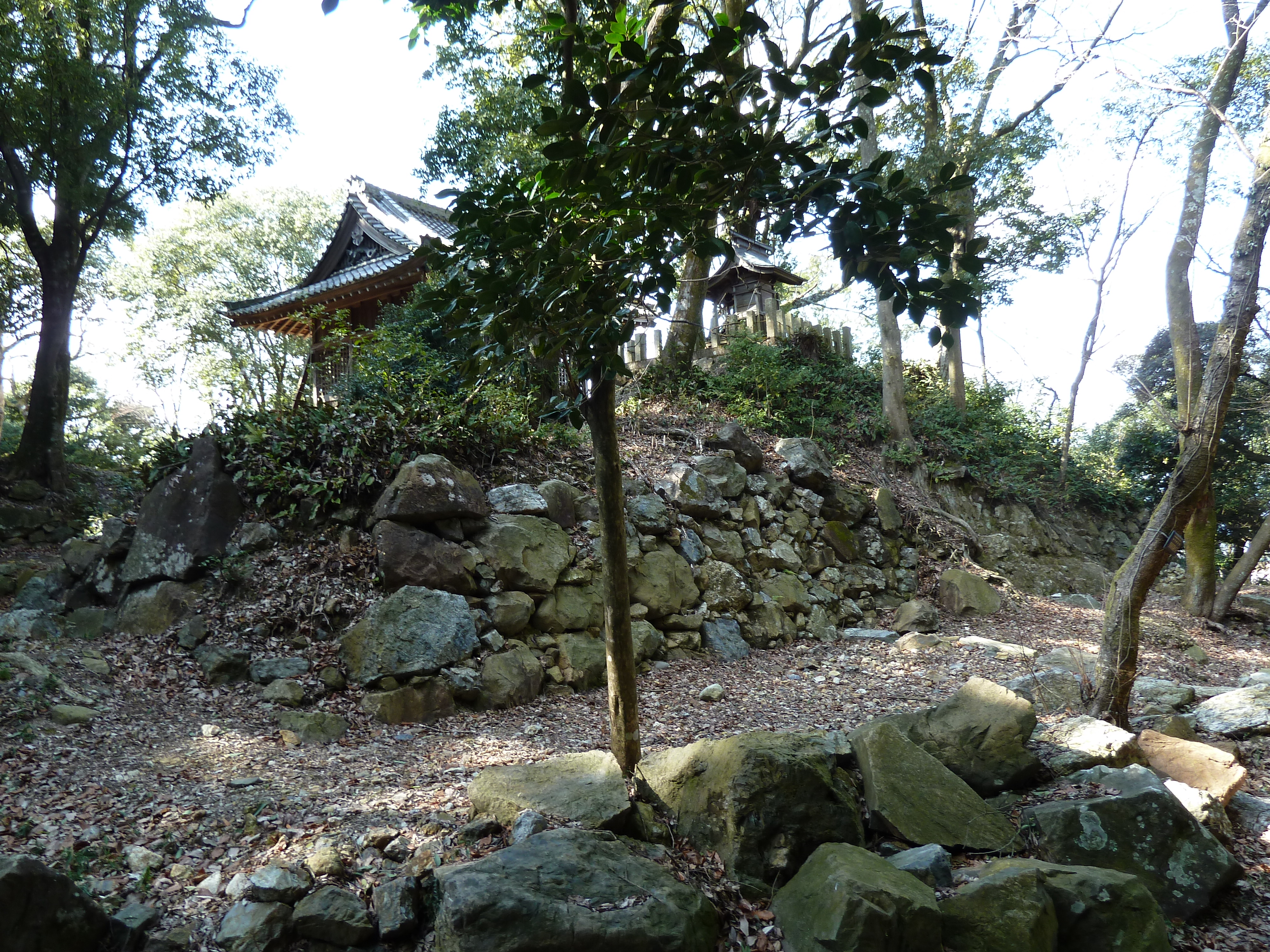 天守台石垣